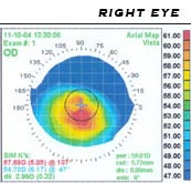 An example of the computerised corneal topogram from an eye with keratoconus. Originally uploaded with following decscriptions: A corneal topogram of the right eye of a patient with keratoconus prior to treatment with asymmetric radial keratotomy. The image shows the axial curvature of the cornea, with blue areas indicating areas of flattest curvature, and red the steepest curvature. The steep (red) region below the central cross indicates the irregular protruding cone that is characteristic of keratononus.